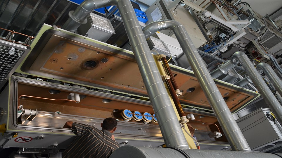 Single tube with 3.8 m length (and 3.72 arc length)